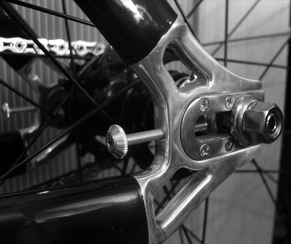 Spacer screws to adjust the chain tension on horizontal dropouts of a track bike.